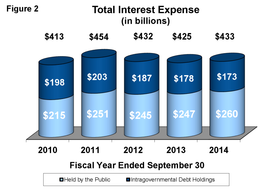 Interest expense on the U.S. national debt from 2008-2012